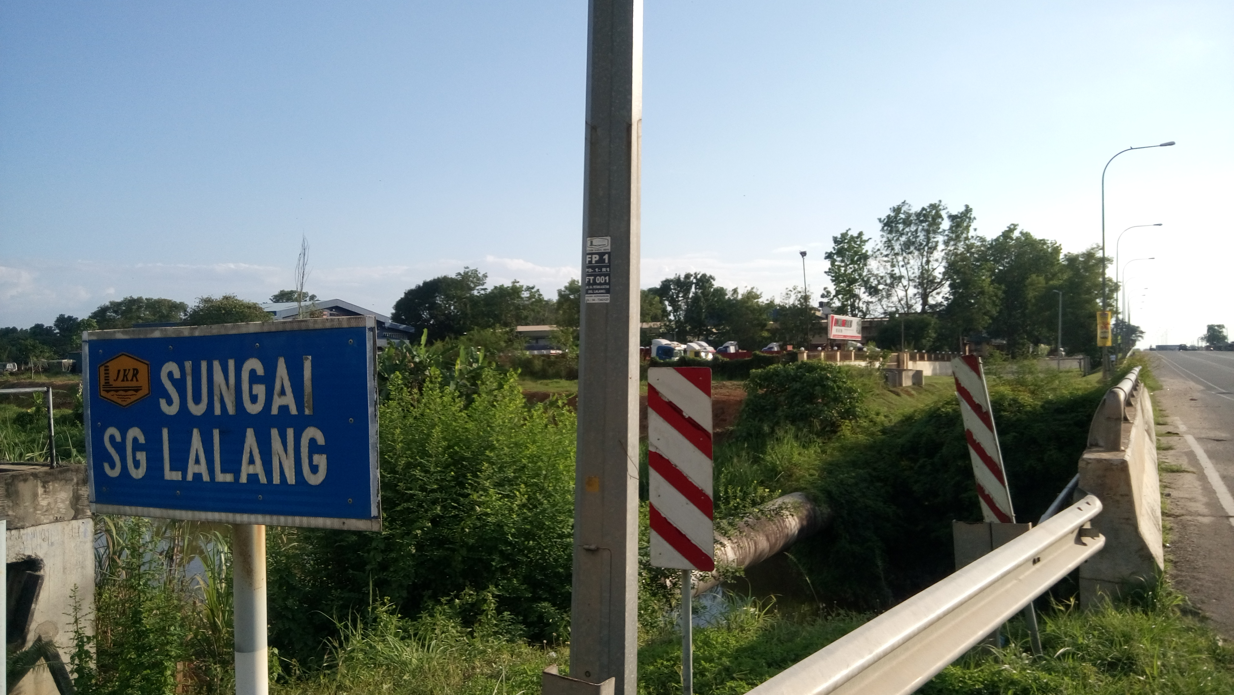 River name signboard and the river itself near the Federal Route 1 in Sungai Lalang. The river is named as Sungai Sungai Lalang (Sungai Lalang River) as shown.